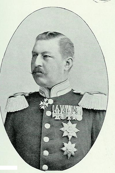 A photograph of Gunther Victor, last Prince of Schwarzburg, Germany